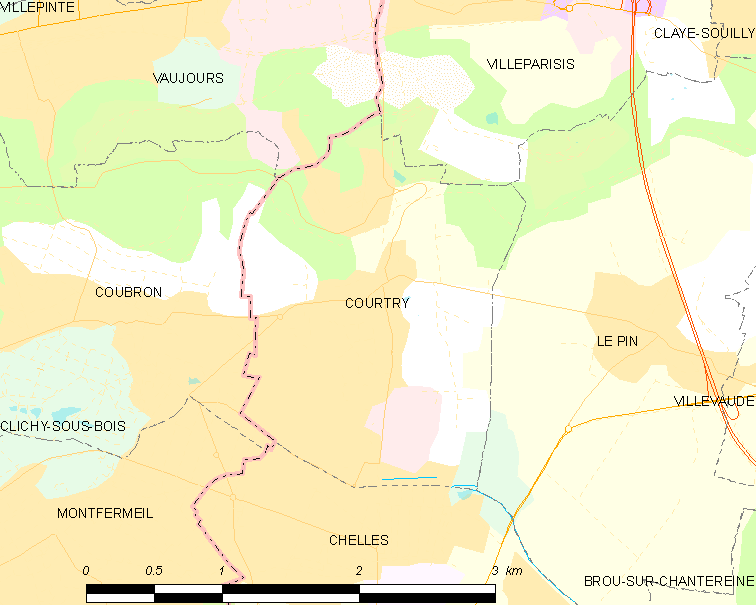 Map of French municipality Courtry